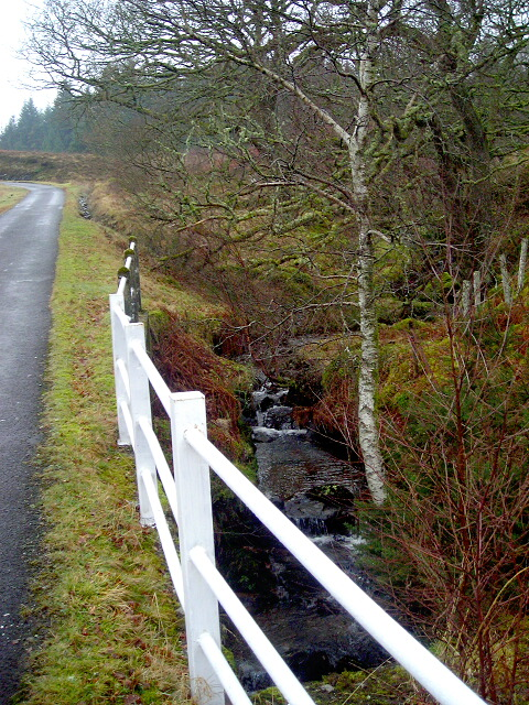 Small Burn Beside Loch Katrine Road